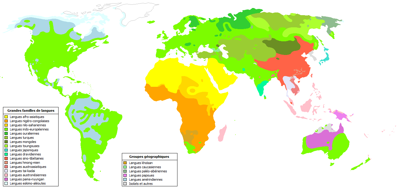 Diagram of the main world language families and geographic groupings, with a legend in French.